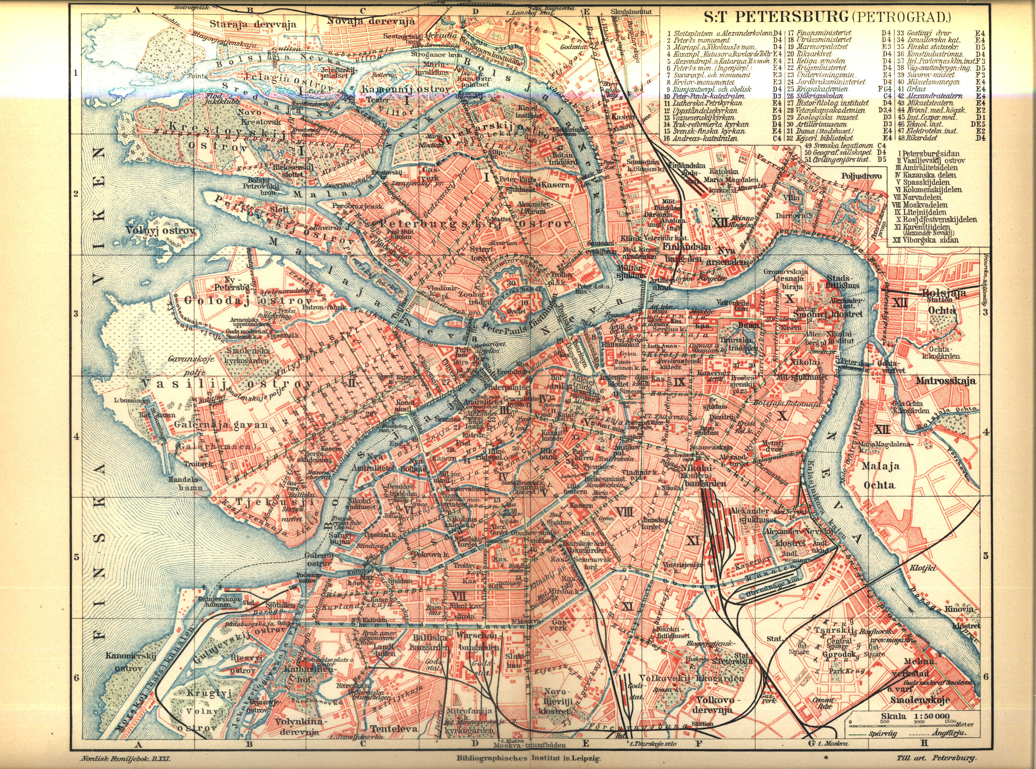 Map of Saint Petersburg between 1911 and 1915